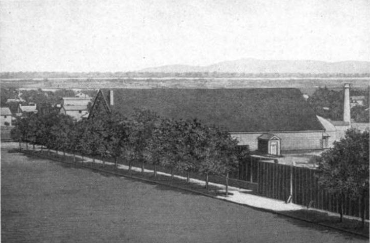 The Old Salt Lake Tabernacle (1851-52) of The Church of Jesus Christ of Latter-day Saints was razed in 1877 and preceded the current Salt Lake Tabernacle built 1863-67. This picture was published in 1917.